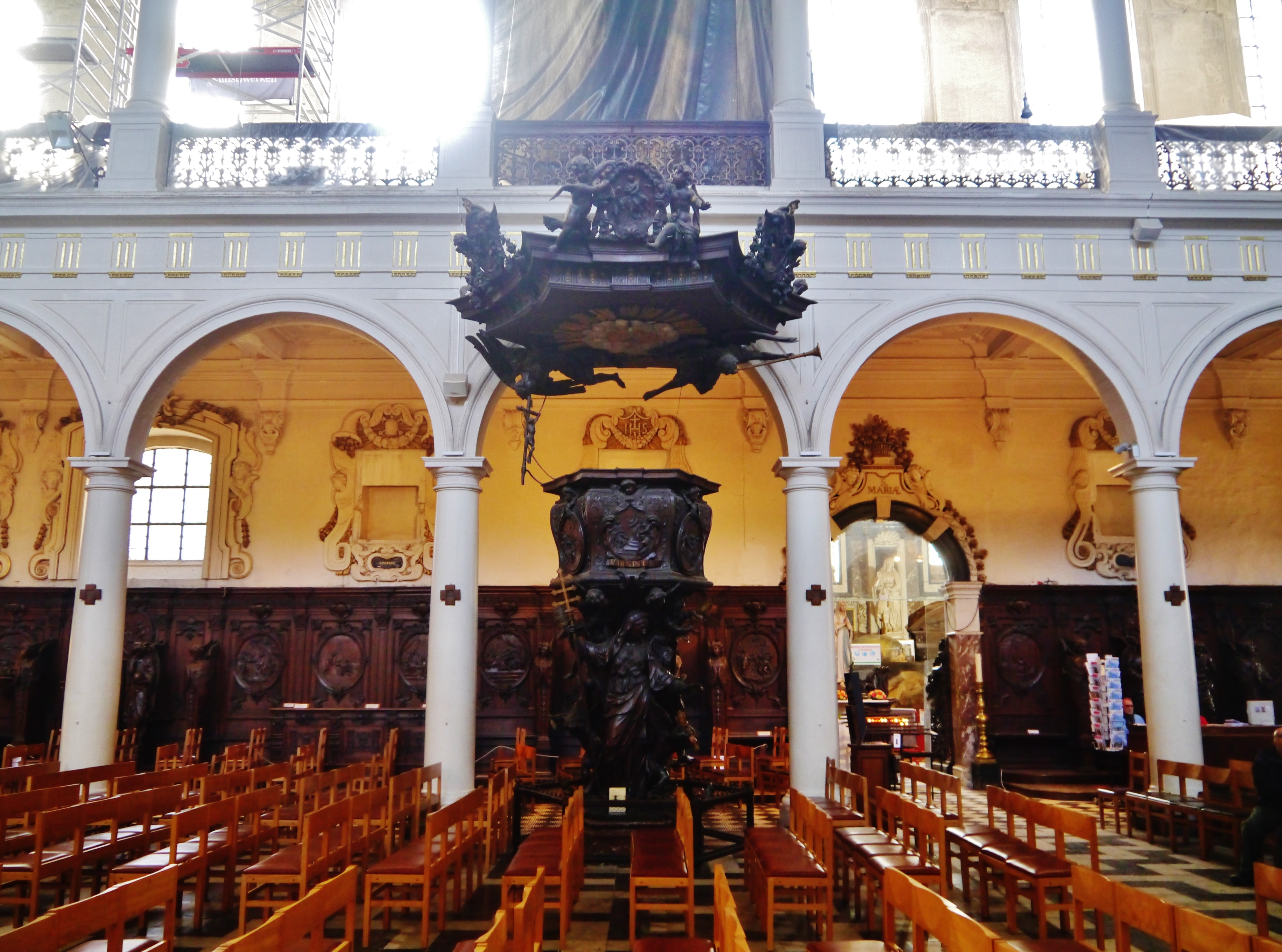 Pulpit of St. Charles Borromeus, Antwerp, Province of Amtwerp, Flanders, Belgium